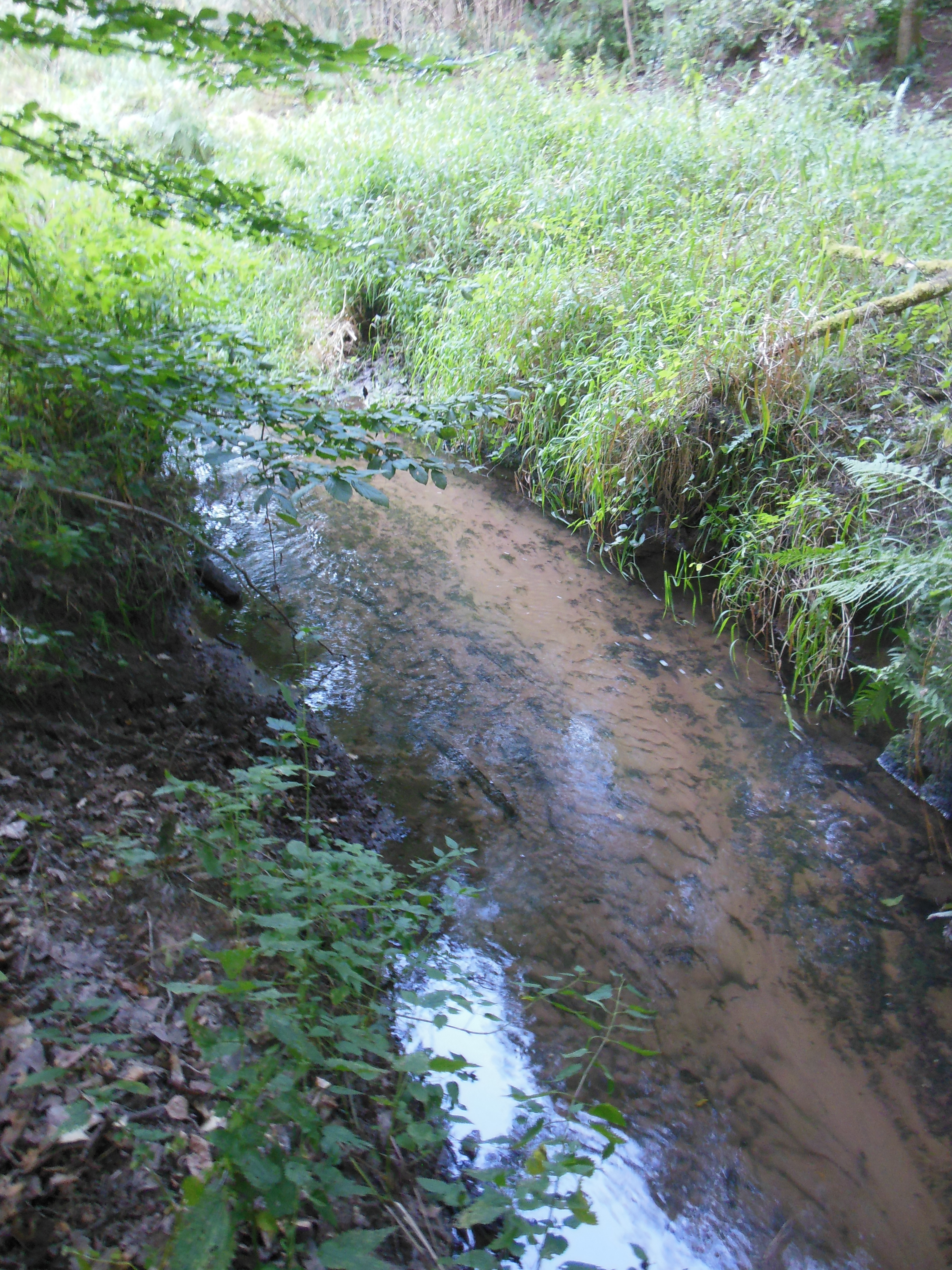 Grentzbach-Muehlgraben Brook between Montbronn and Meisenthal